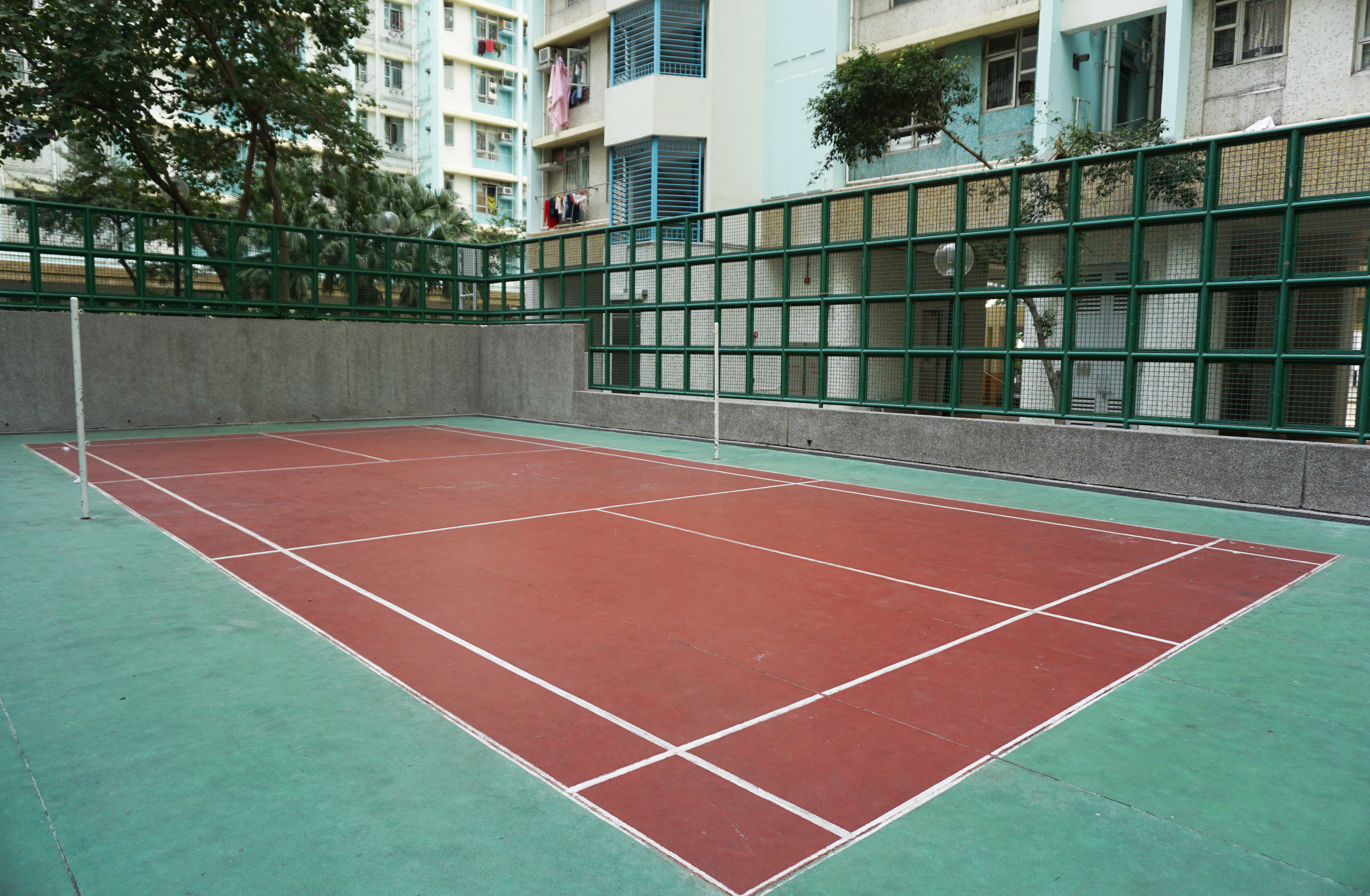 Fu Cheong Estate in Sham Shui Po, Hong Kong.